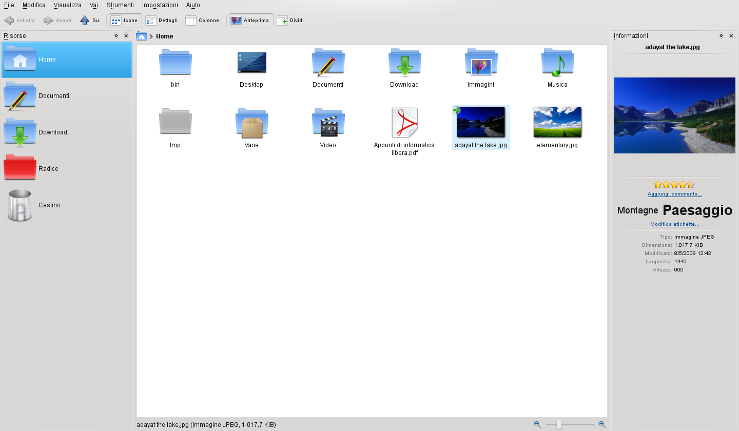 Dolphin KDE file manager